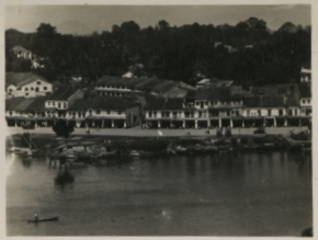 River embankment and main bazaar, Kuching. Location: Kuching, Borneo Description: Main bazaar wharf, Kuching. Location: Kuching, Borneo Our Catalogue Reference: Part of CO 1069/549. This image is part of the Colonial Office photographic collection held at The National Archives. Feel free to share it within the spirit of the Commons. Please use the comments section below the pictures to share any information you have about the people, places or events shown. We have attempted to provide place information for the images automatically but our software may not have found the correct location. For high quality reproductions of any item from our collection please contact our image library